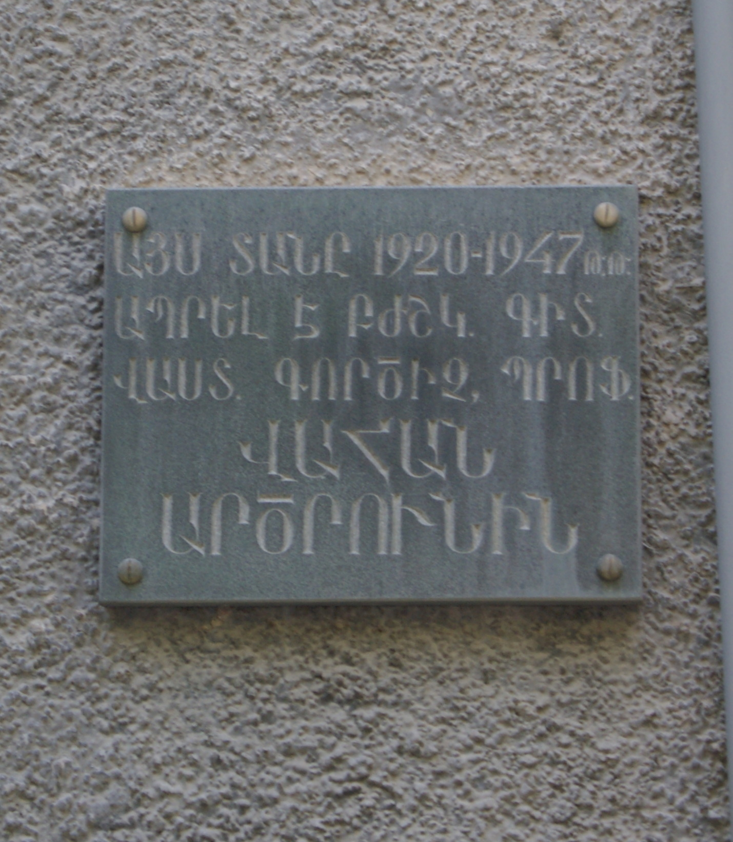 Vahan Artsruni Plaque, Yerevan